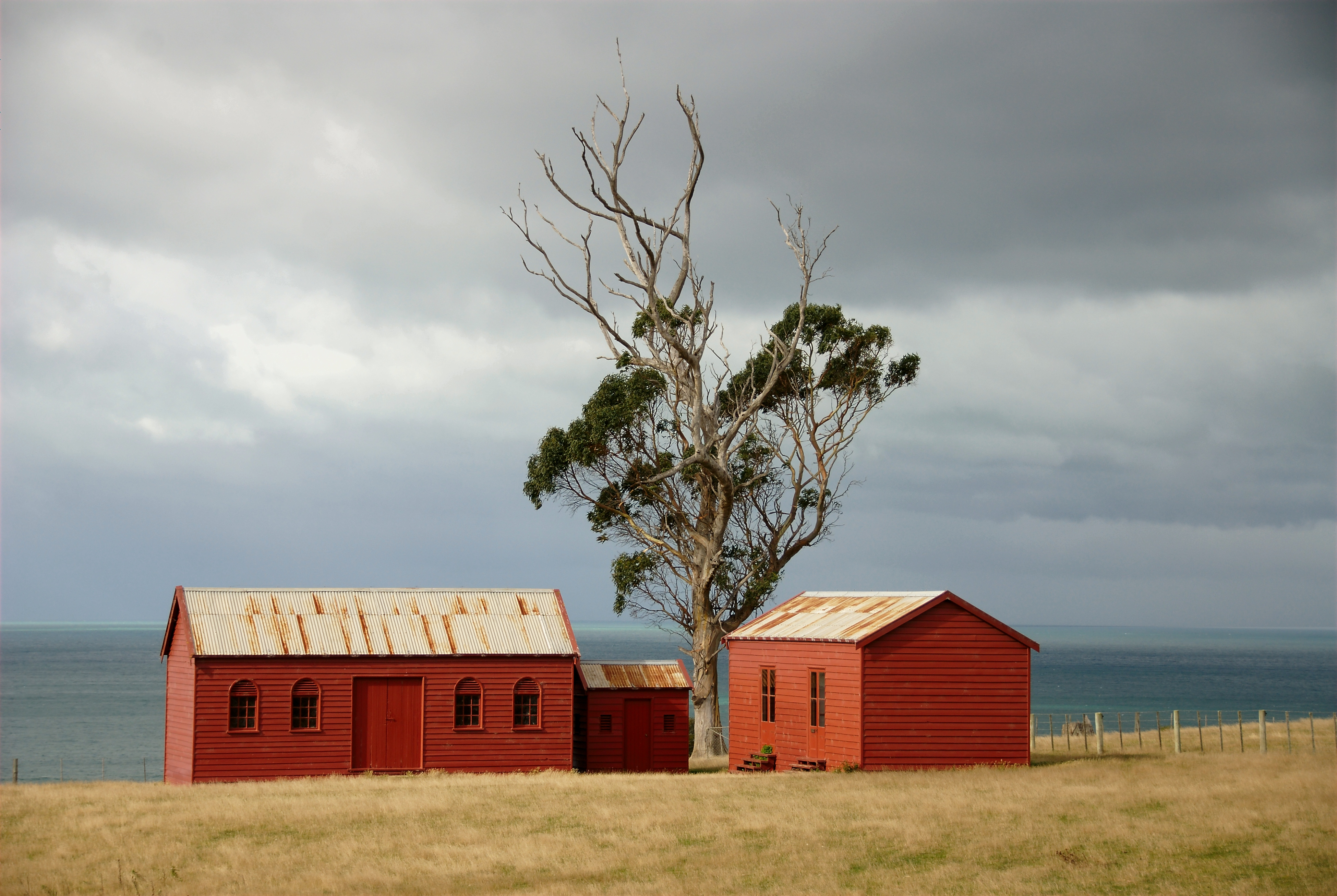 This granary, privy and schoolhouse at Matanaka are New Zealand's oldest surviving farm buildings. These buildings are registered Category I historic places with the New Zealand Historic Places Trust.